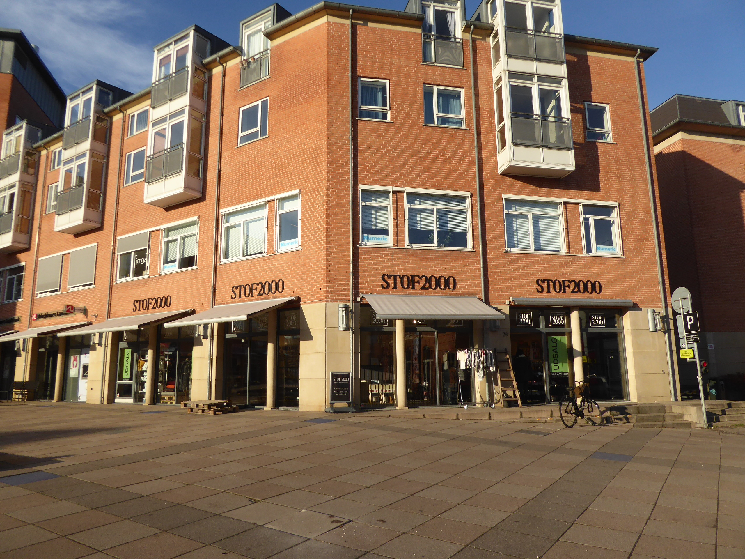 An Stof 2000 shop at Østerfælled Torv in Østerbro in Copenhagen.